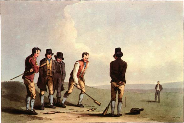 The traditional English game of knurr and spell, which goes by numerous other names such as "nipsy" and "knurr and sling". Engraving taken from George Walker's The Costume of Yorkshire, first published in 1814.